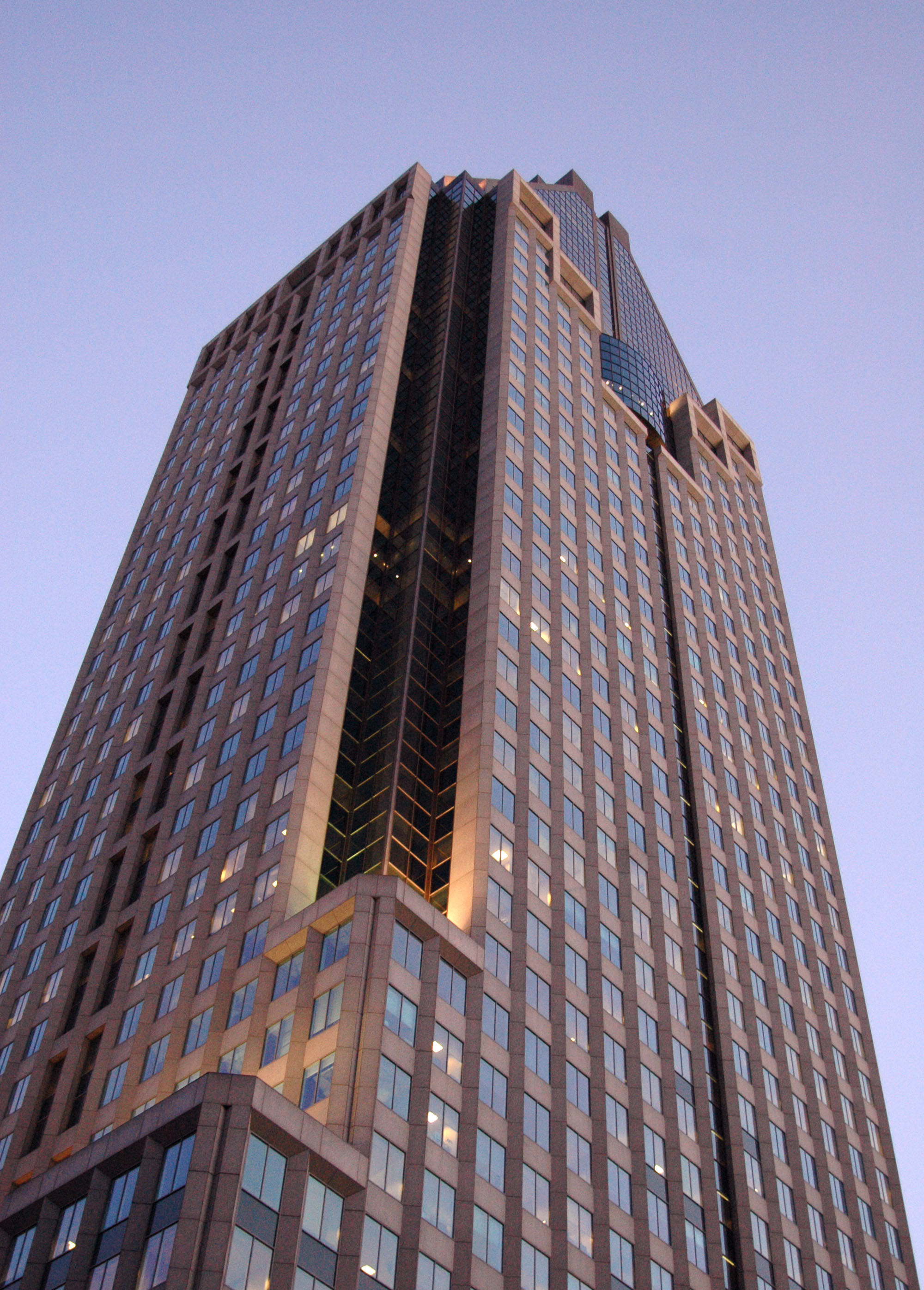 1000 de la Gauchetiere Street, Montreal.